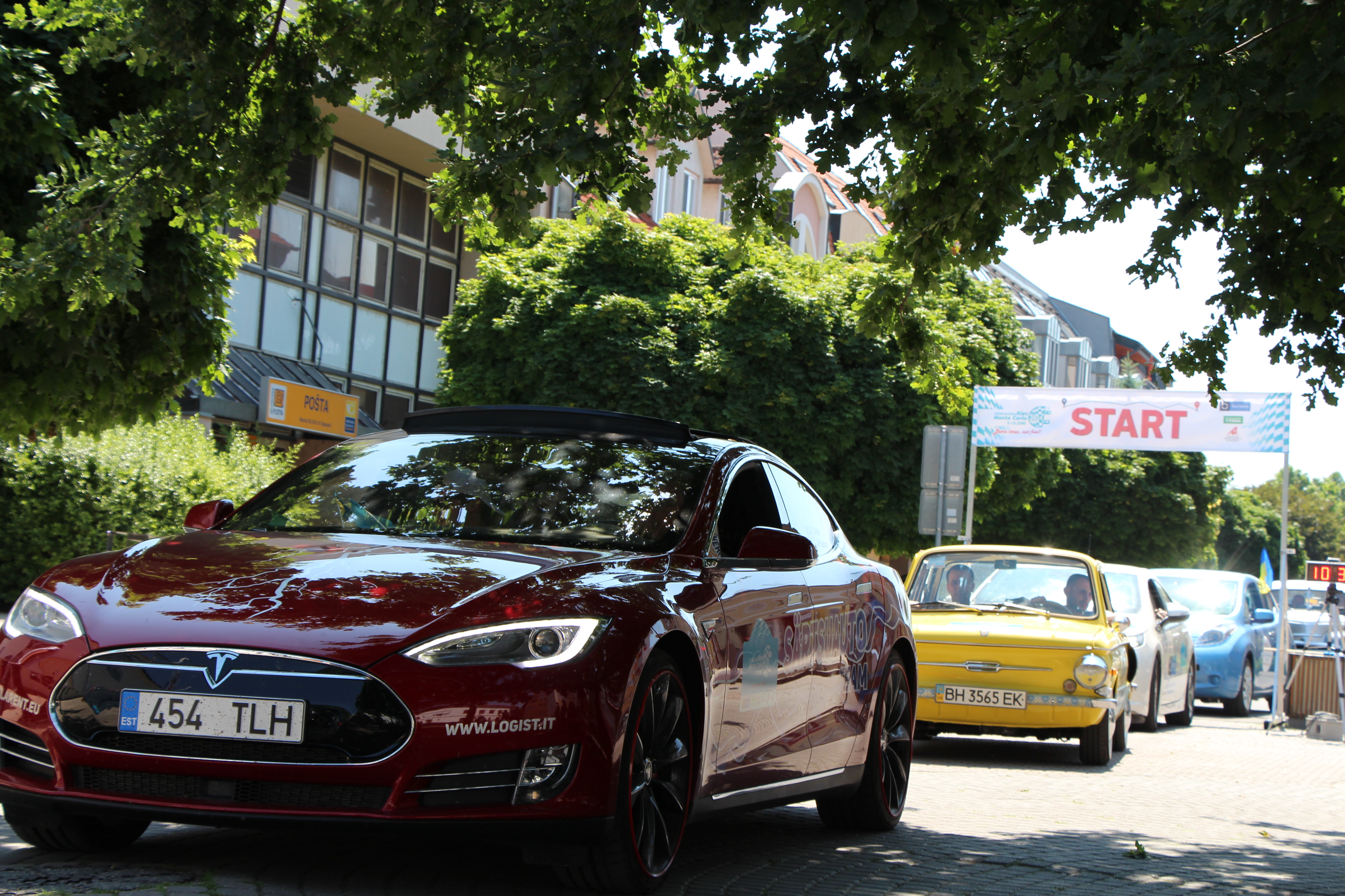 Participants of Electric Marathon 2015 in Šamorín, Slovakia